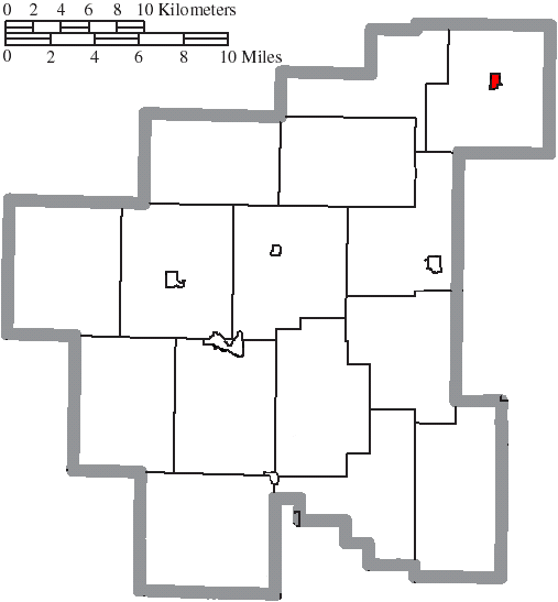 Map of the municipal and township boundaries of Noble County, Ohio, United States, as of the 2000 census, with the location of the village of Batesville highlighted. Township borders are shown only in unincorporated areas in order to differentiate incorporated and unincorporated areas more clearly.